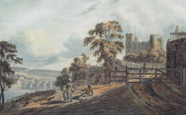 Title: View of Rochester, Kent, with figures Medium: Pen and Ink and Watercolor Size: 11.22 x 16.54 cm. (4.4 x 6.5 in.)